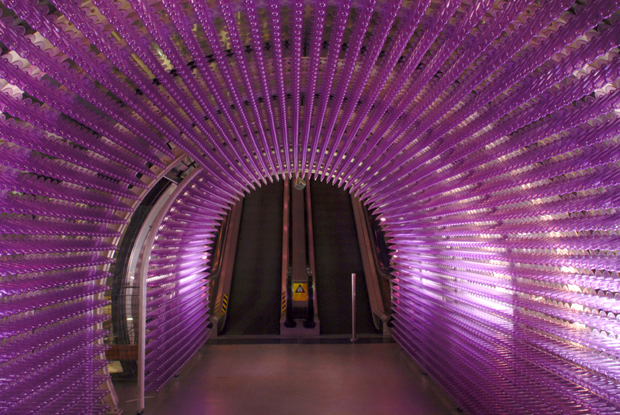 Preservation is life - Les sons de ma vie au Centre national d'art et de culture Georges-Pompidou